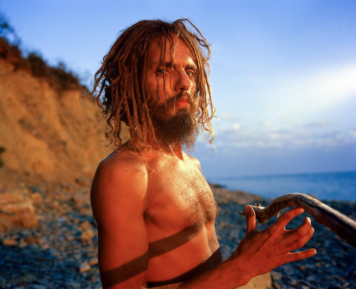 Photo by Nikita Shokhov from the series Utrish. 2013